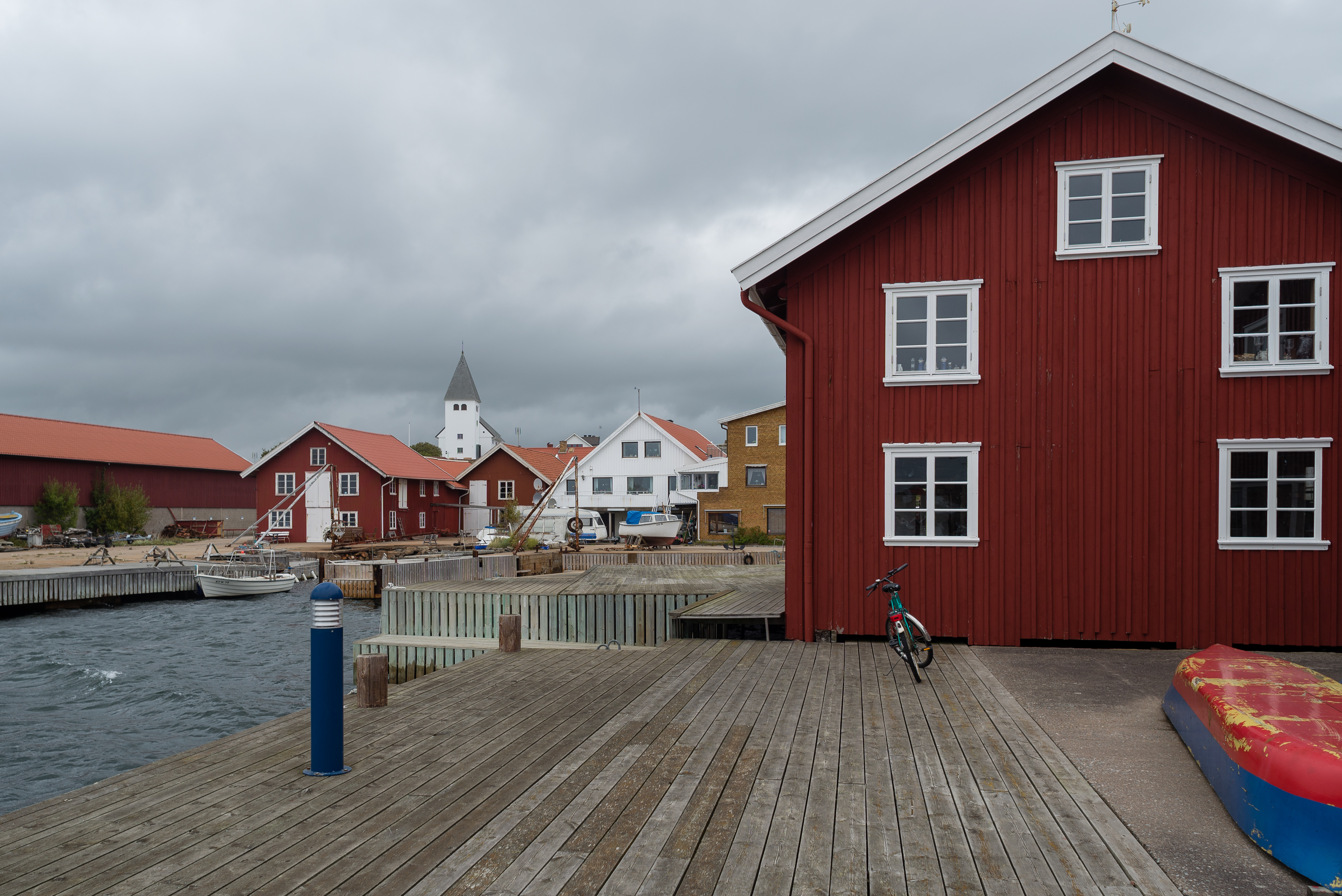 The villages Skärhamn in Tjörn Municipality, Västra Götaland county.